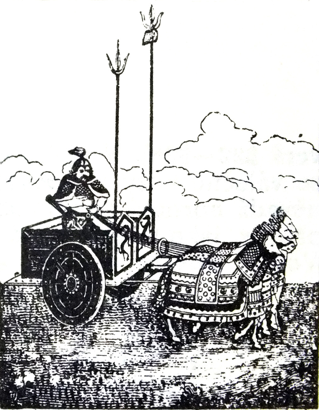 Chariot of an ancient Chinese general.